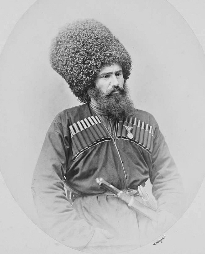 Abdul-Wahab son of Mustafa from Kazanish (kumyk — Abdul-Wahab Mustafa ulanı Qazanışlı), a prominent Kumyk architect of the 19th century